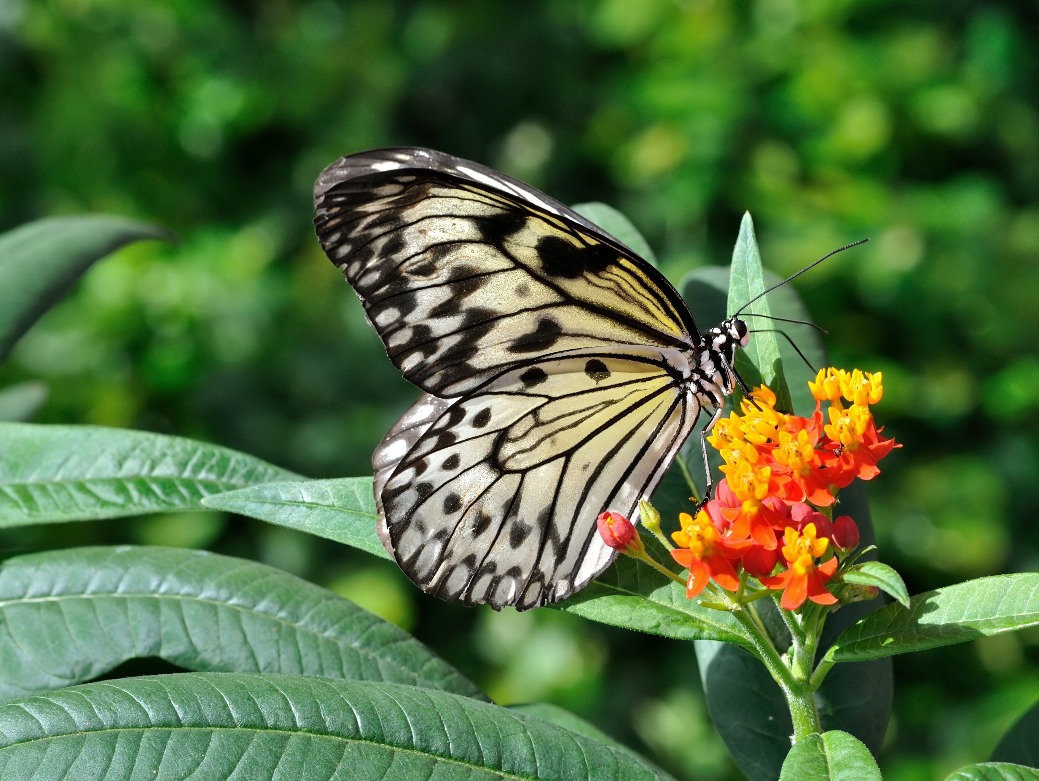 Paper Kite (Idea leuconoe) on Mexican Butterfly Weed (Asclepias curassavica) in the Wilhelma, Stuttgart, Germany.